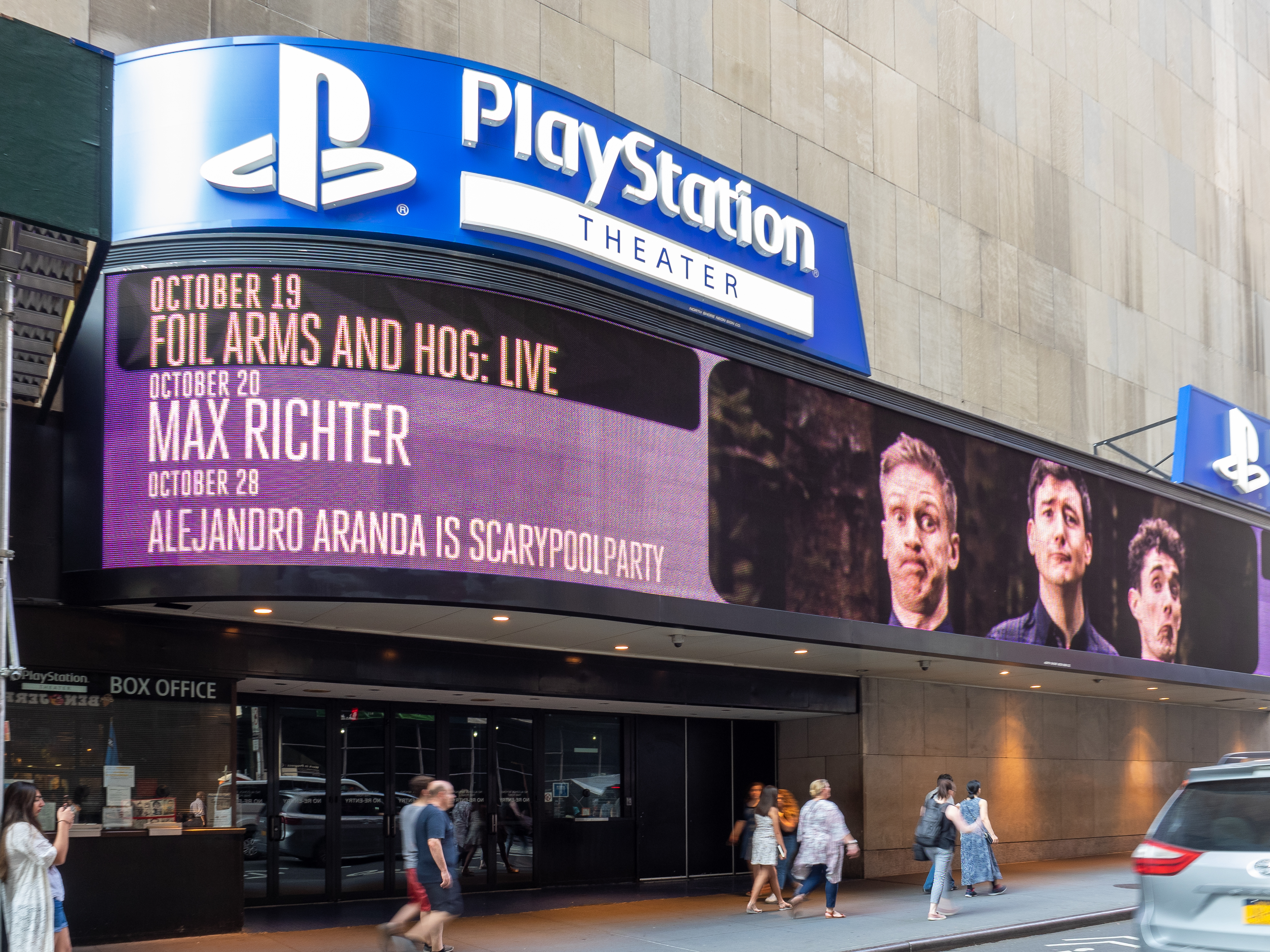 Theater District, Midtown Manhattan, NYC